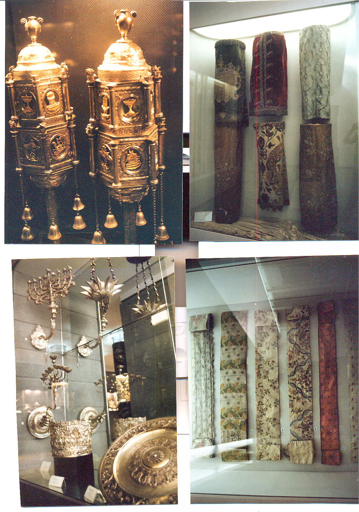 The Jewish museum in Rome, total.